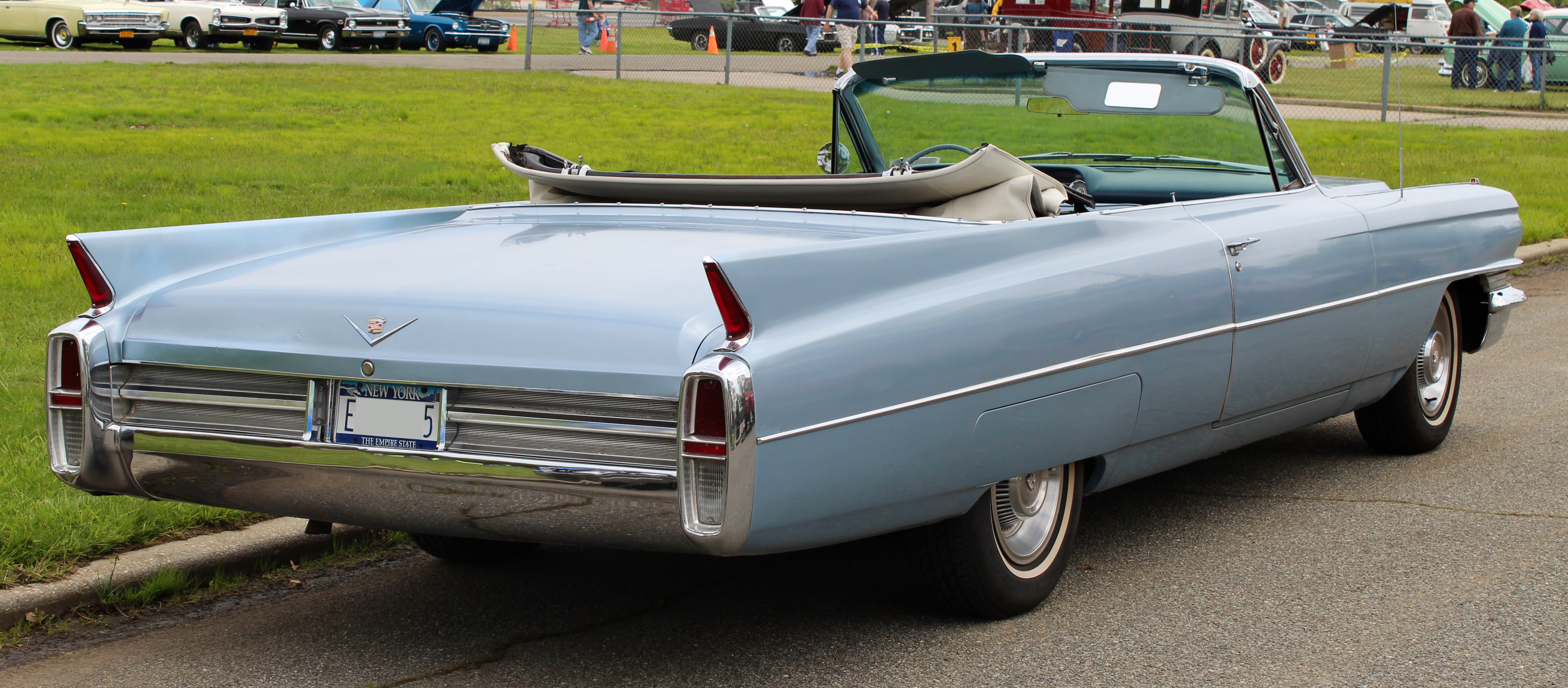 A 1963 Cadillac Eldorado photographed during at a classic car show, in Merrick, New York, USA=